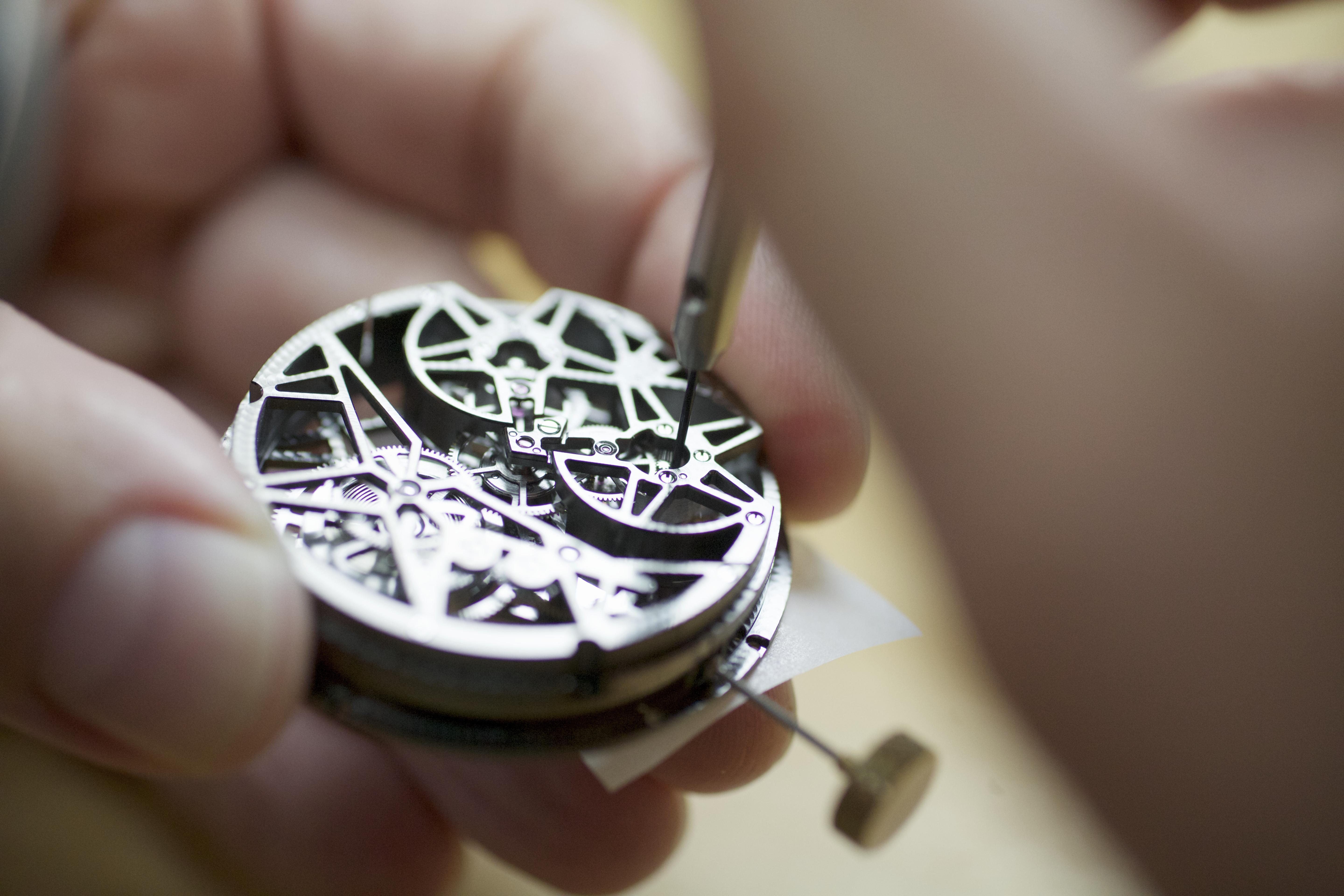 Roger Dubuis RD820SQ Automatic skeleton with micro-rotor